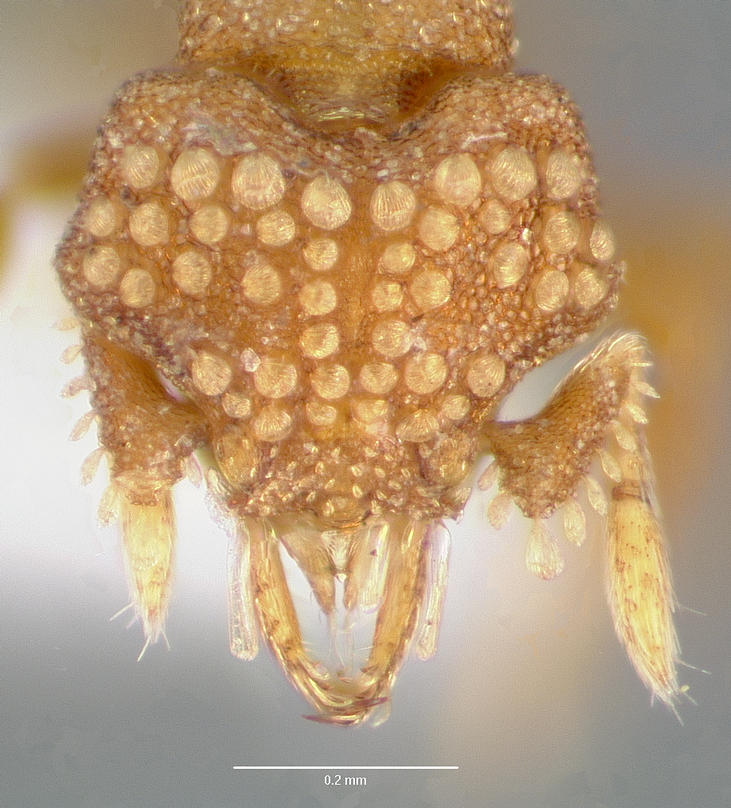 Head view of ant Pyramica marchosias specimen casent0005654.